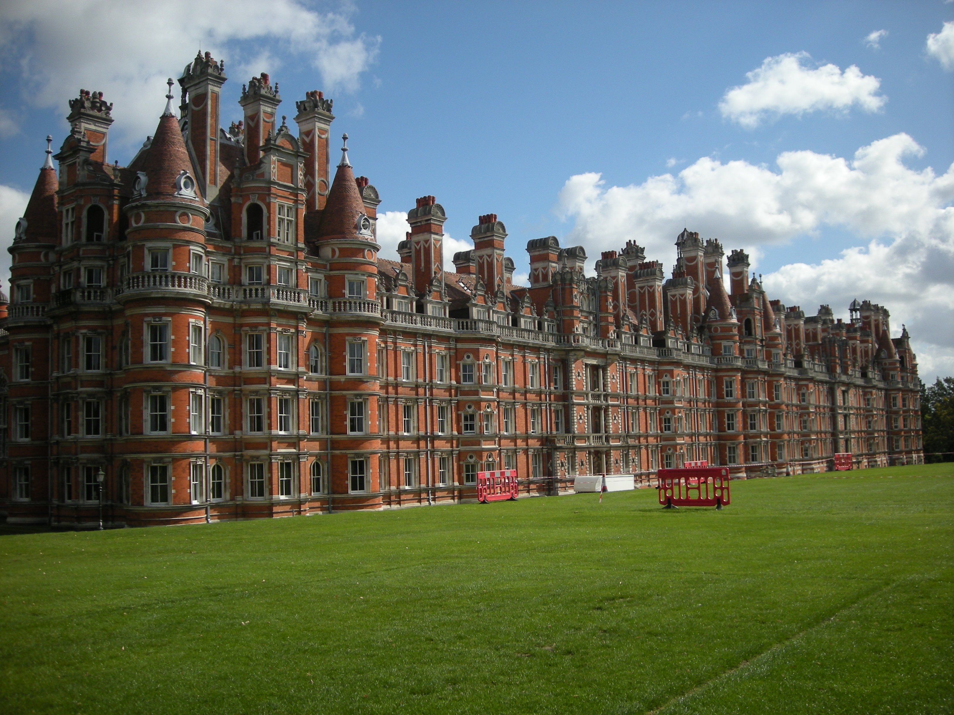 The Founder's Building, Egham campus.